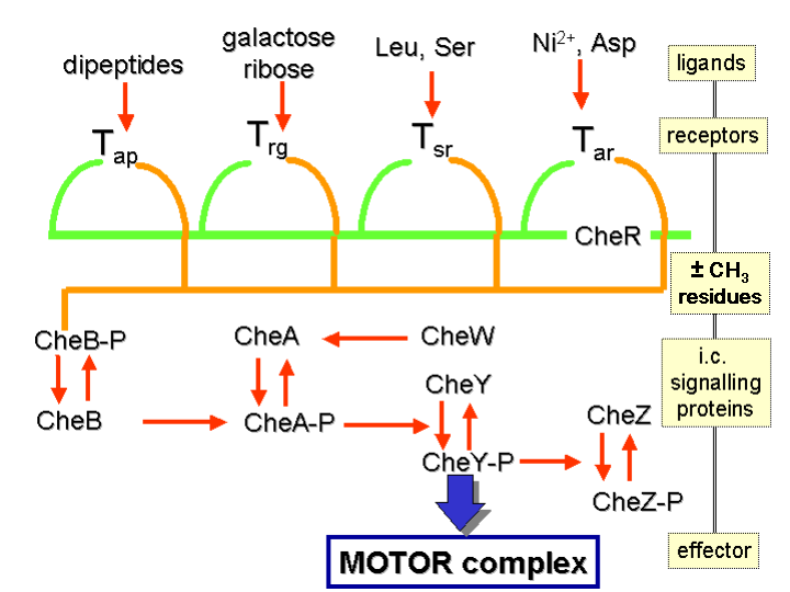 Signaling in bacterial chemotaxis